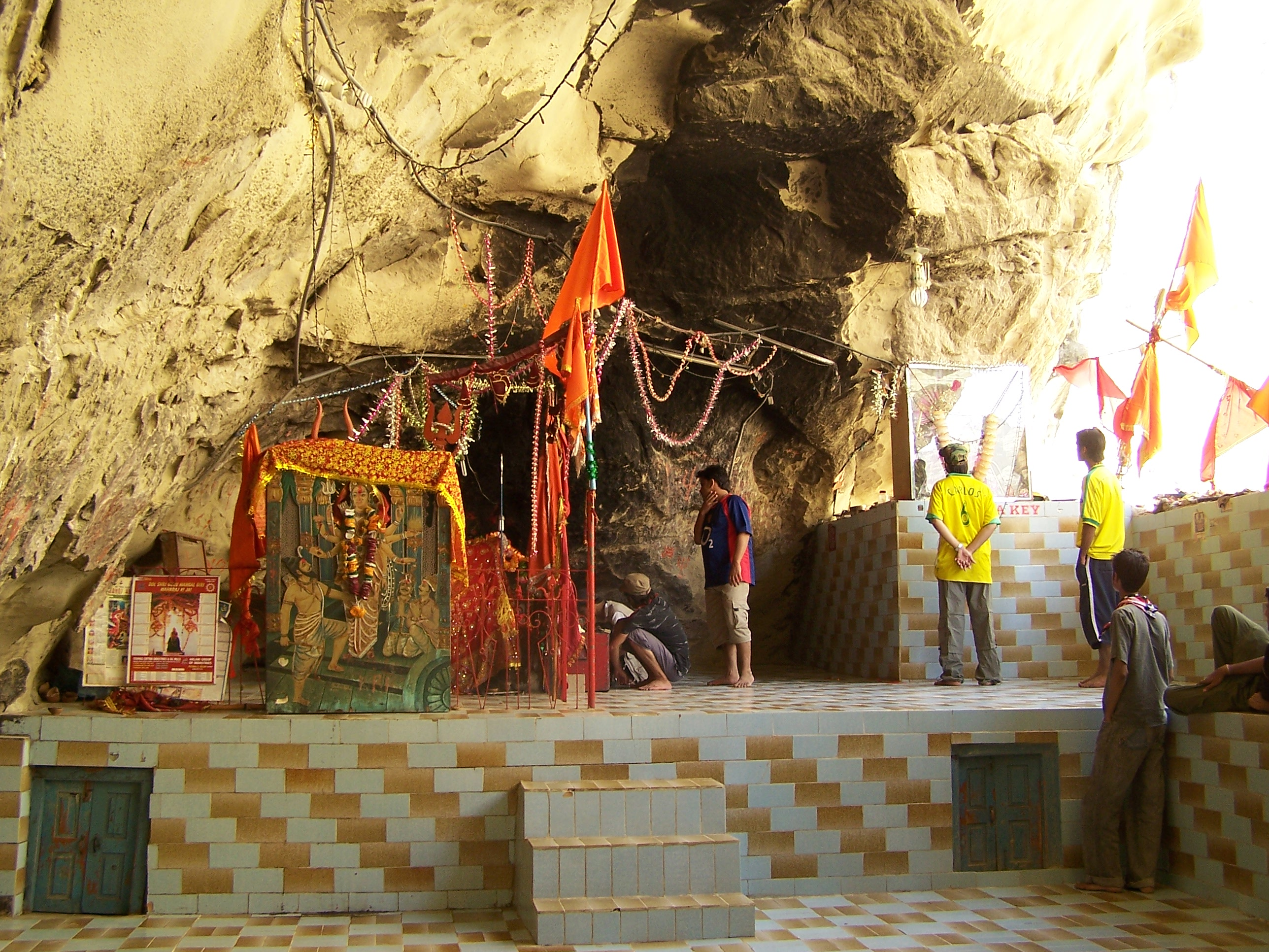 Nani Mandir, Hungol National Park